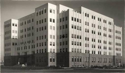 Argentine State Railway building, inaugurated in 1936 in Puerto Nuevo of Buenos Aires. The building is currently used by the National Economy Court of Appeal.